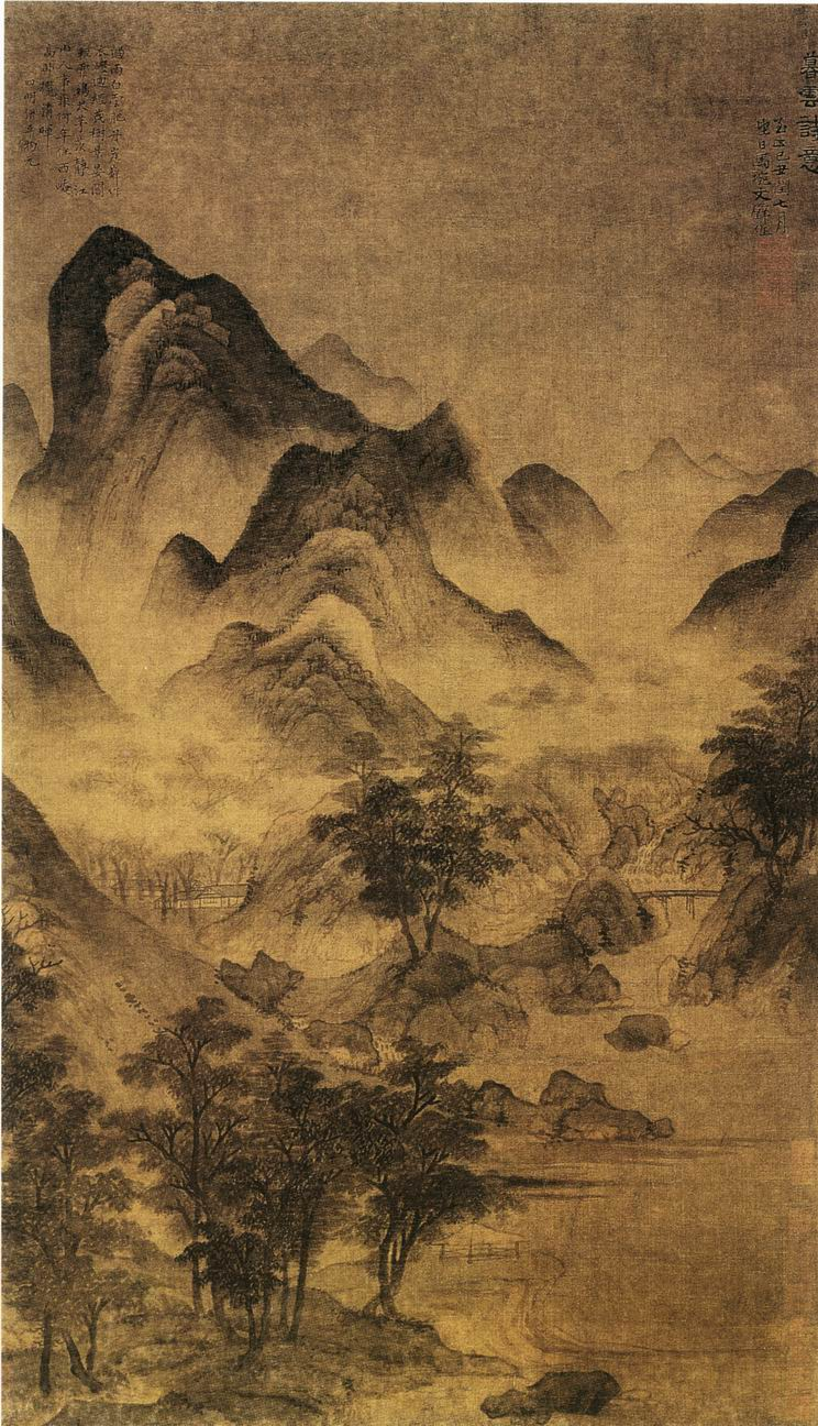 Poetic Twilight Clouds (暮雲詩意圖) Color on silk. 95.6 x 56.3 cm. Shanghai Museum, Shanghai, China. (上海博物館). See Zhongguo gu dai shu hua jian ding zu. (中國古代書畫鑑定組編) 1997. Zhongguo hui hua quan ji.(中國繪畫全集) Zhongguo mei shu fen lei quan ji. Beijing: Wen wu chu ban she. (文物出版社) Volume 8, Page 143.